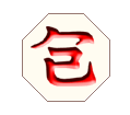 One of the janggi pieces.